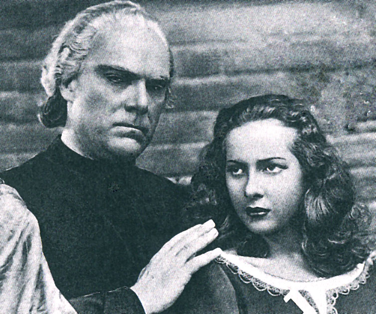 Italian actors Memo Benassi and Loredana in the Italian film Dente per dente by Marco Elter